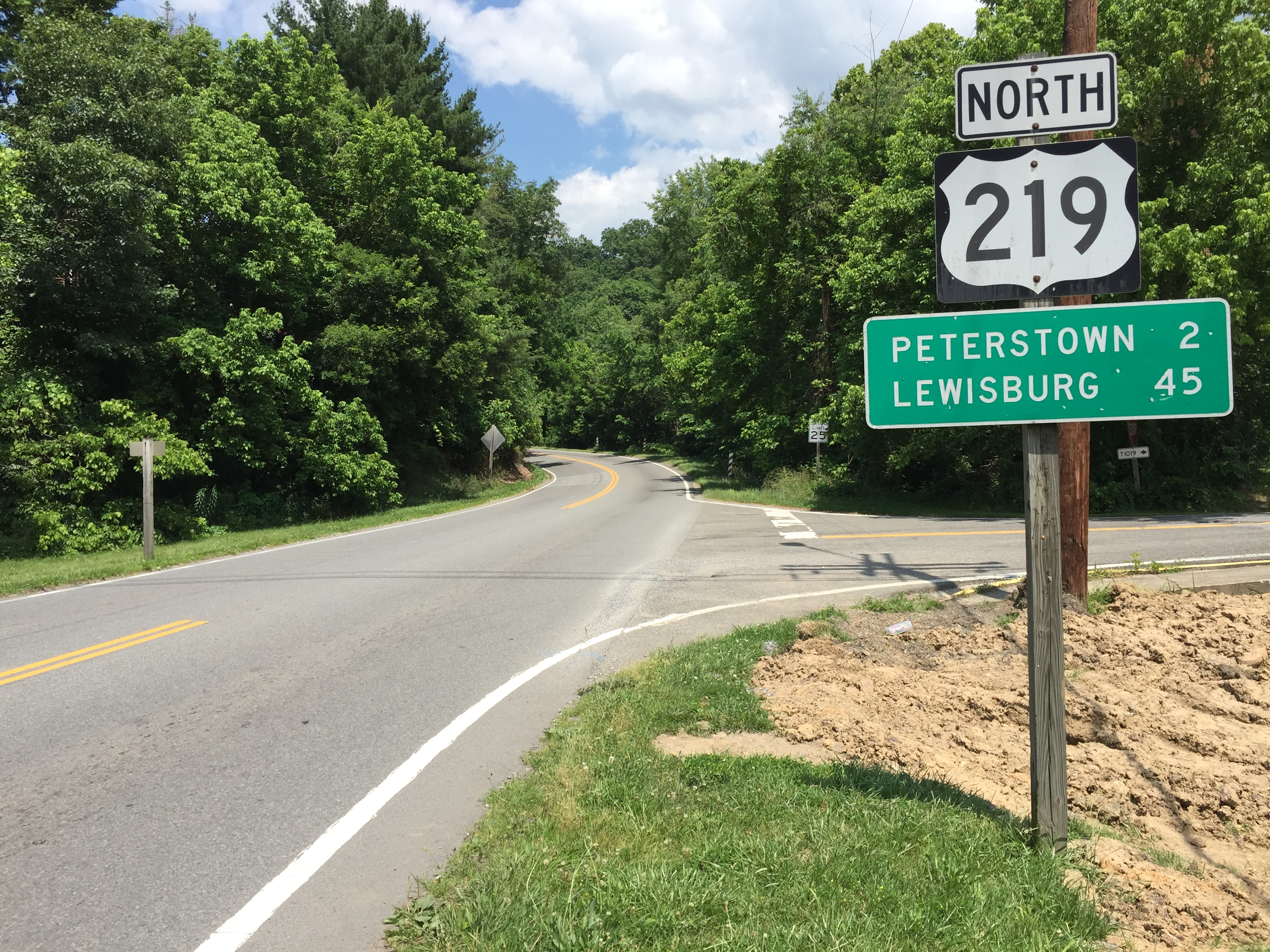 View north along U.S. Route 219 (Federal Street) at Church Street in Rich Creek, Giles County, Virginia